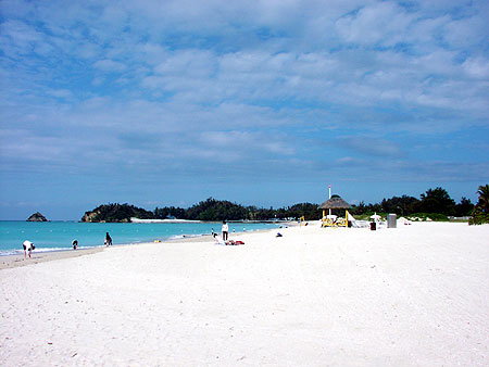 Okuma Beach